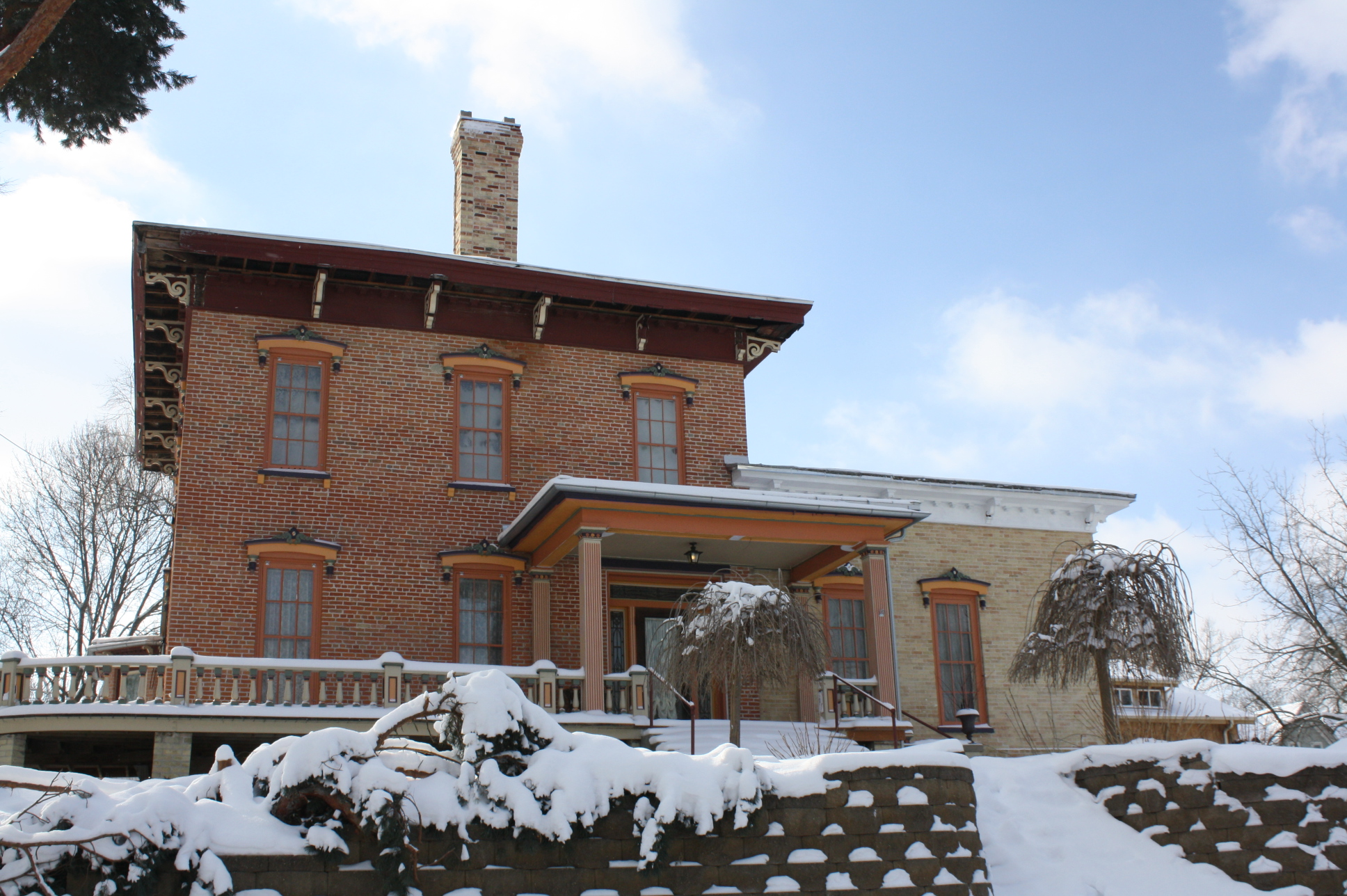 Looking south at the Daniel C. Van Brunt House in Horicon, Wisconsin, listed on the National Register of Historic Places.